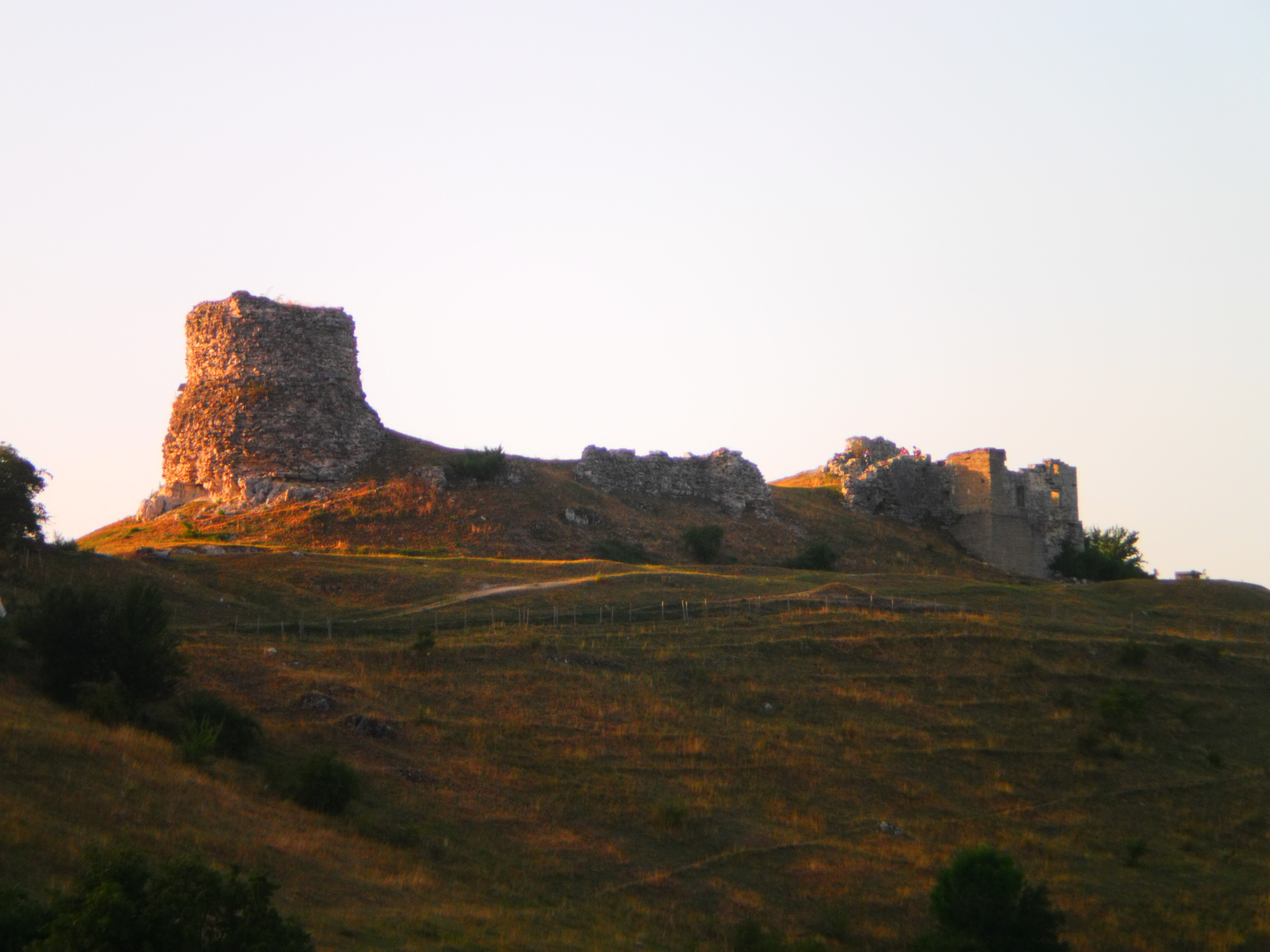 Medieval fortress on the hill above the Glamoč